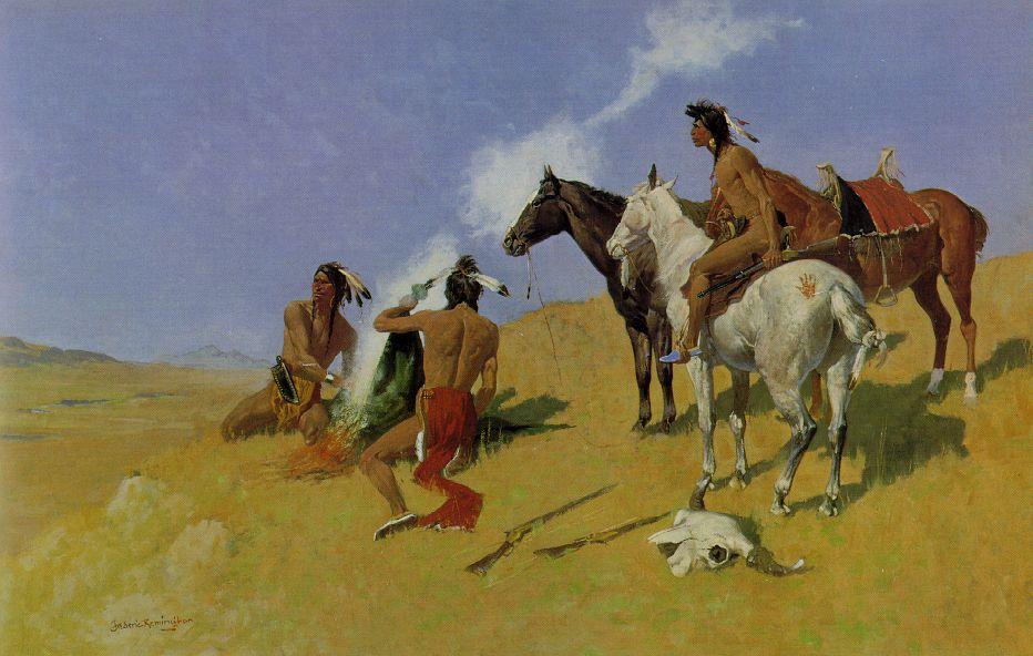 Painting by Frederic Remington showing native americans generating a smoke signal; Amon Carter Museum, Fort Worth